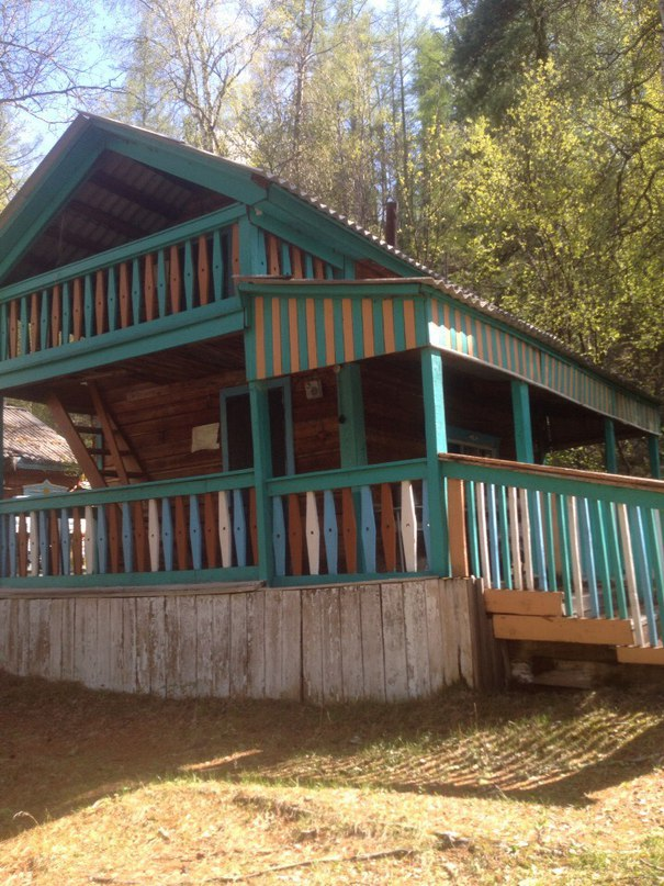 Home healing source in Engorboe